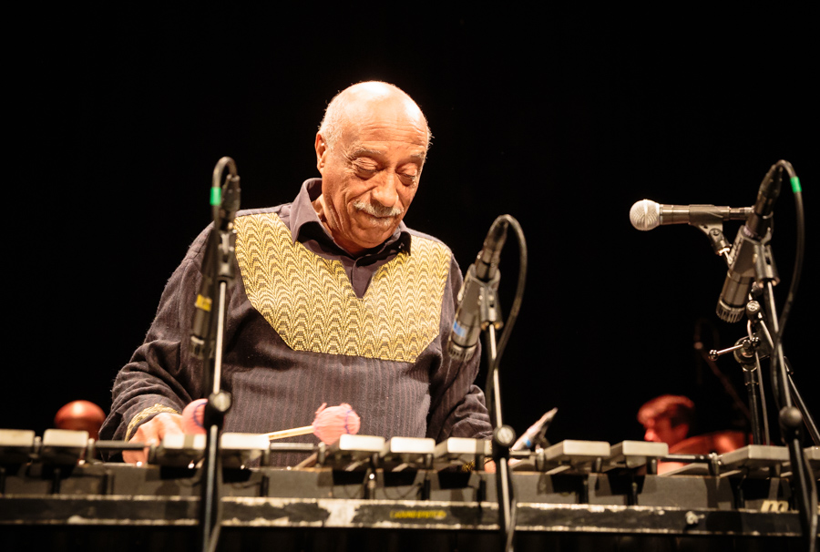 Mulatu Astatke at the stage at Cosmopolite in Soria Moria. The concert took place on 09. November 2017. The concert was part of Cosmopolite's 25 year jubilee week. Lineup: Mulatu Astatke (vibraphone), James Arben (saxophone), Shanti Jayasinha (trumpet), Alexander Hawkins (keyboard), Ben Trigg (cello), Neil Charles (double bass), Tom Skinner (drums) and Richard Olatunde Baker (percussion).